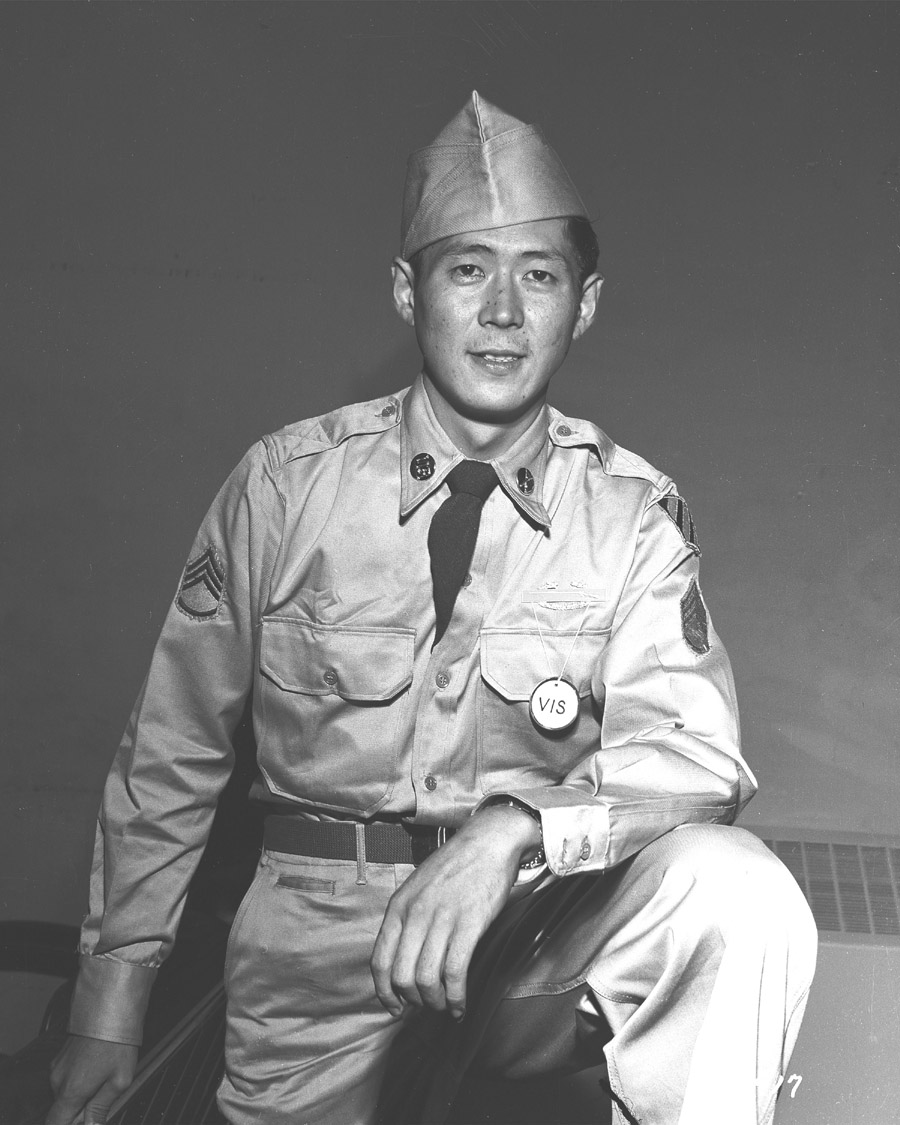 U.S. Army Staff Sergeant Hiroshi H. Miyamura, Medal of Honor recipient for combat actions near Taejon-ni, South Korea, April 24, 1951, while serving with Company H, 7th Infantry Regiment, 3rd Infantry Division. Photo courtesy National Archives.